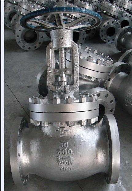 Carbon steel globe valve. Valves and are generally made of plastic or steel, the latter being the most widely used in chemical and petrochemical applications. Steel grades range from the most common type, namely carbon steel, with standard stainless steel being the second most common. Stainless steel alloys, which include nickel or copper are used in applications that require higher corrosion or heat resistance. In such cases, the most commonly used valve configurations -- ball valves, gate valves, check valves, globe valves and butterfly valves -- are often forged or cast as duplex valves, super duplex valves, alloy 20 valves, monel valves, inconel valves, incoloy valves and 254 SMO valves (6Mo valves). Titanium valves are also used in some highly corrosive applications. Titanium is not a stainless steel alloy.